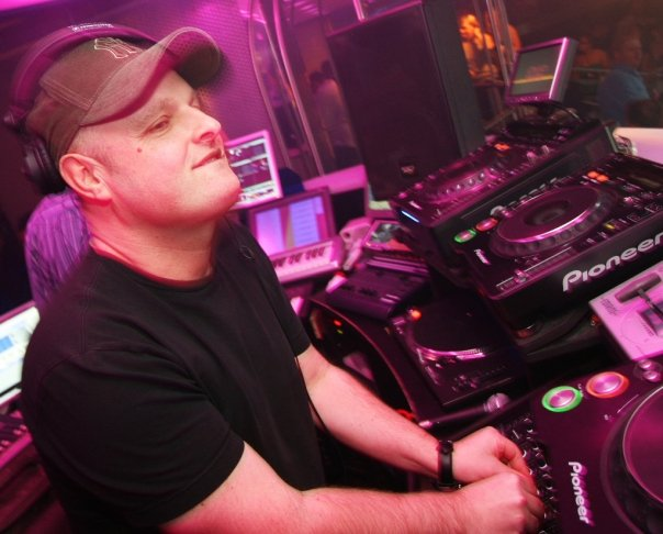 Dave Pearce at Mayhem Nightclub, Southend on Sea, UK